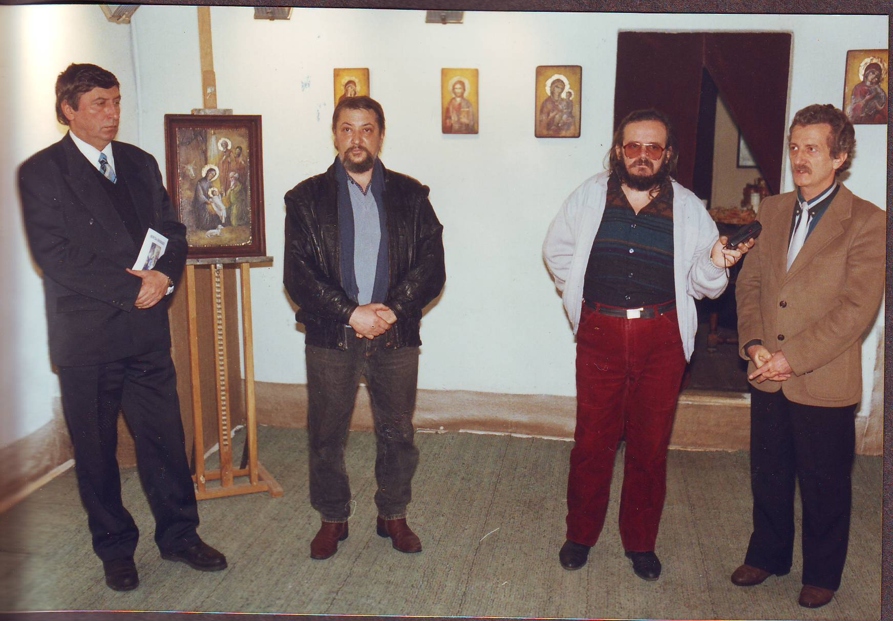 Mircea Ghiorghiu painting exhibition opening